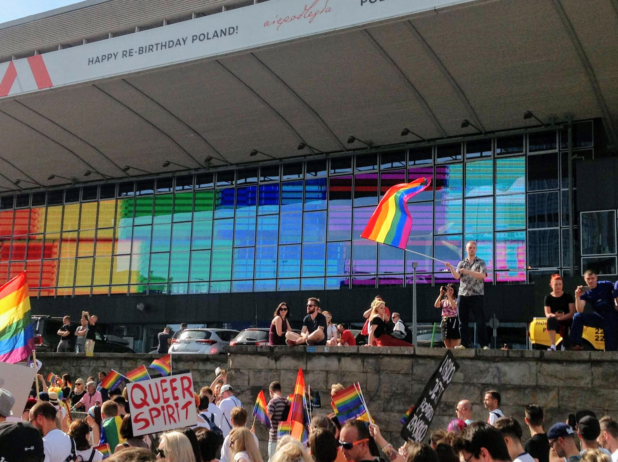 Parada Równości 2018